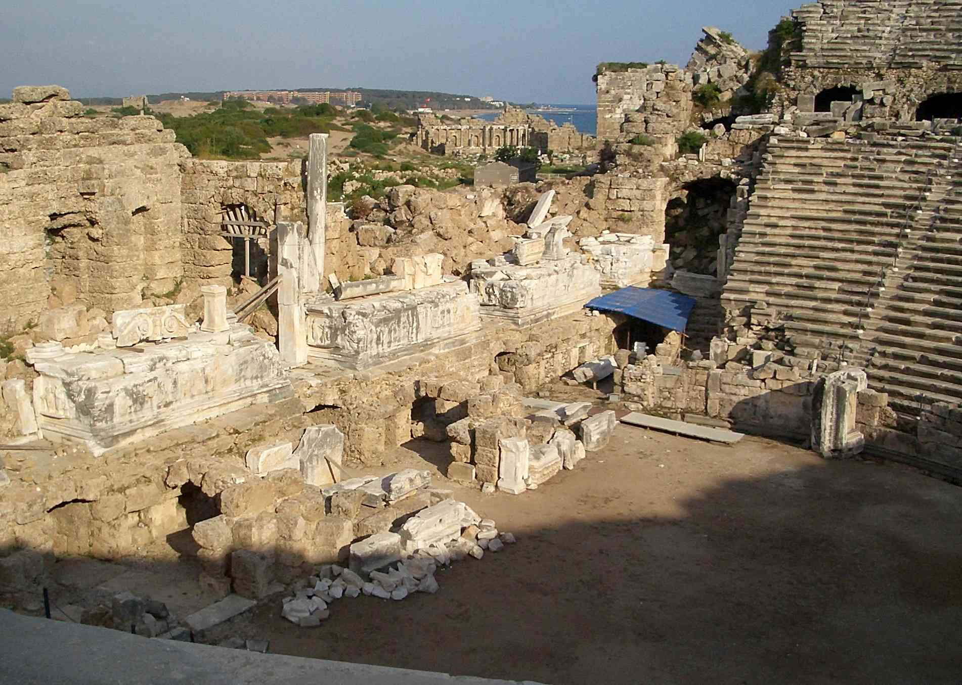 Ancient theatre in Side (Turkey) interior view stage